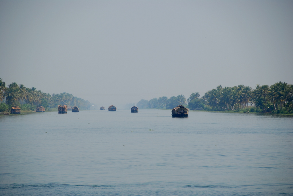 About 400 houseboats operate in the area, this is the water route to Kottayam. Vembanad lake has about 400 houseboats operational.